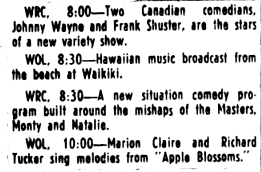 Newspaper ad from a Washington DC newspaper for the duo's new comedy/variety radio show.